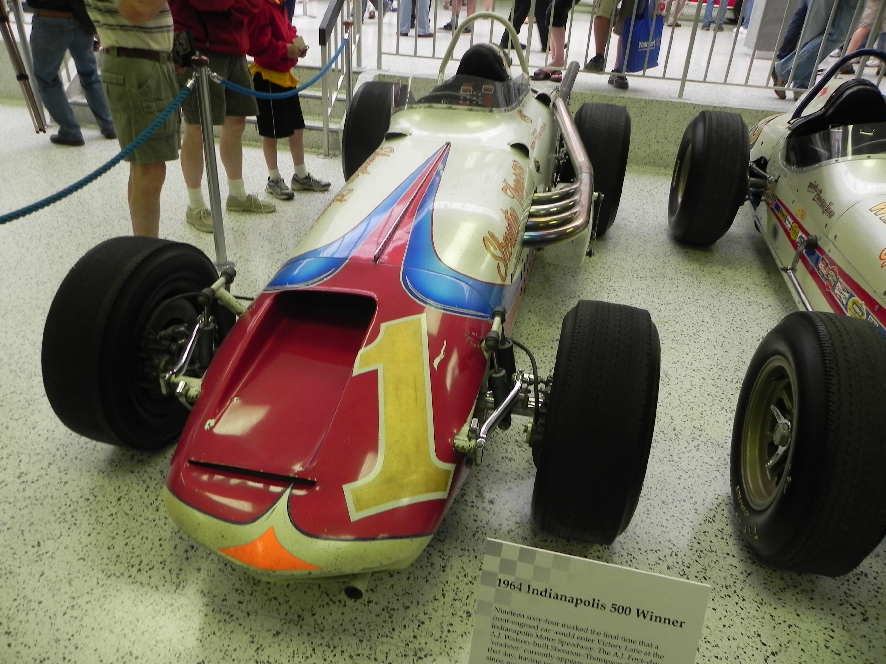 Image of the winning car of the 1964 Indianapolis 500 (A.J. Foyt). Photo was taken at the Indianapolis Motor Speedway Hall of Fame Museum, during the month of May 2011, at the 100th Anniversary "Ultimate Indianapolis 500 Winning Car Collection."